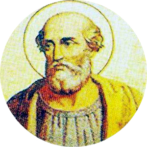 Portraits of Pope Hyginus in the Basilica of Saint Paul Outside the Walls, Rome